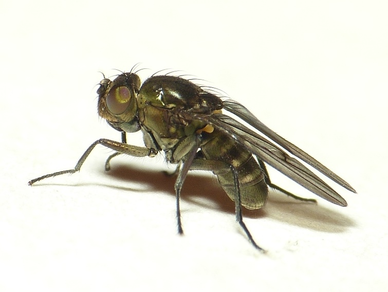 Paracoenia fumosa, location: The Netherlands - Wageningen - Plasserwaard